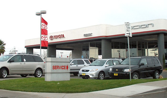 A Toyota car dealership at the Fremont Auto Mall in Fremont, California. Photographed by user Coolcaesar on December 12, 2005.